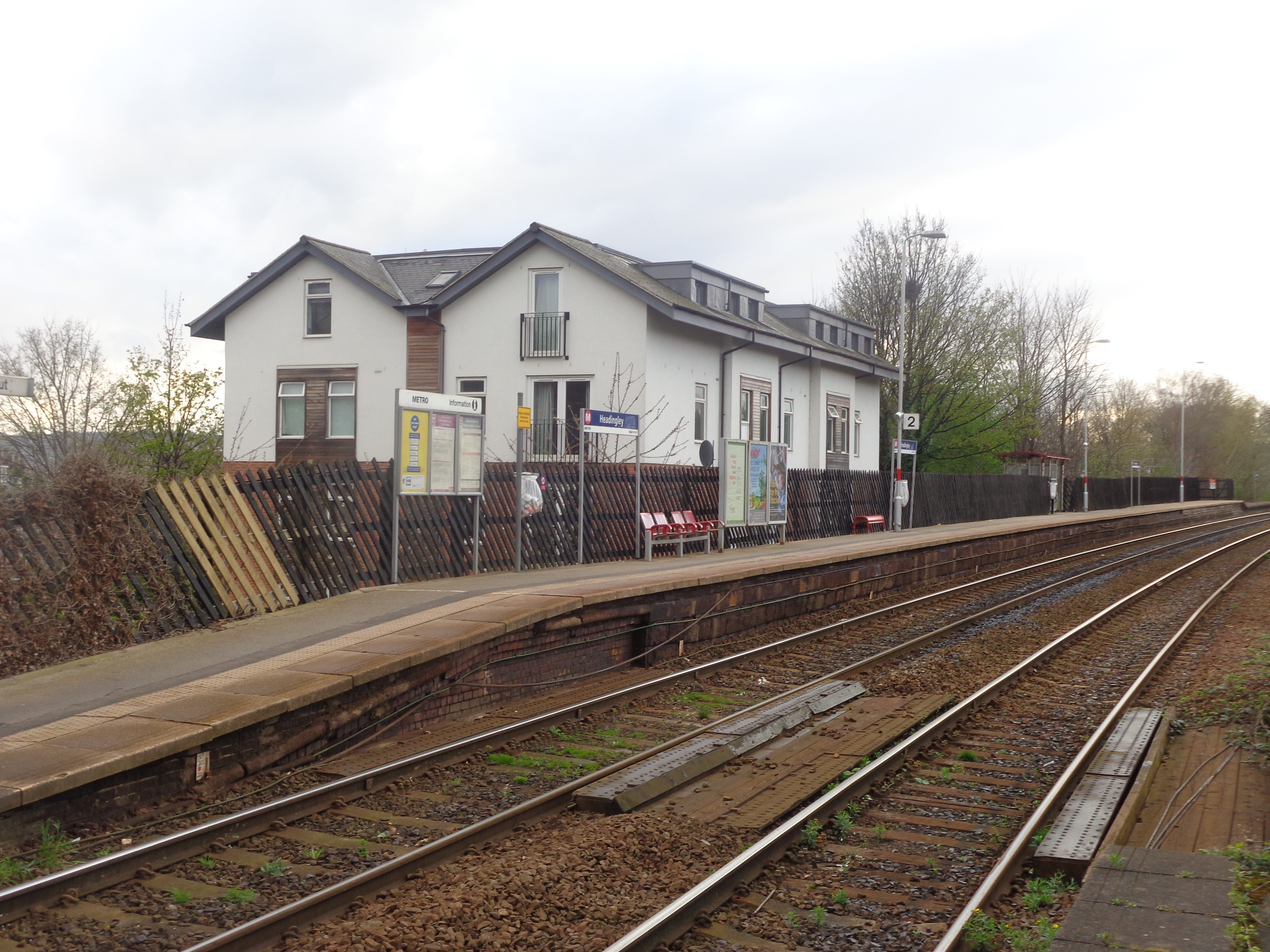 Headingley railway station, Headingley, Leeds, West Yorkshire. Taken on the evening of Saturday the 12th of April 2014.